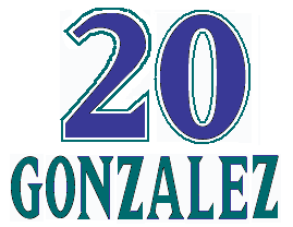 Gonzalez retired number, Diamondbacks.